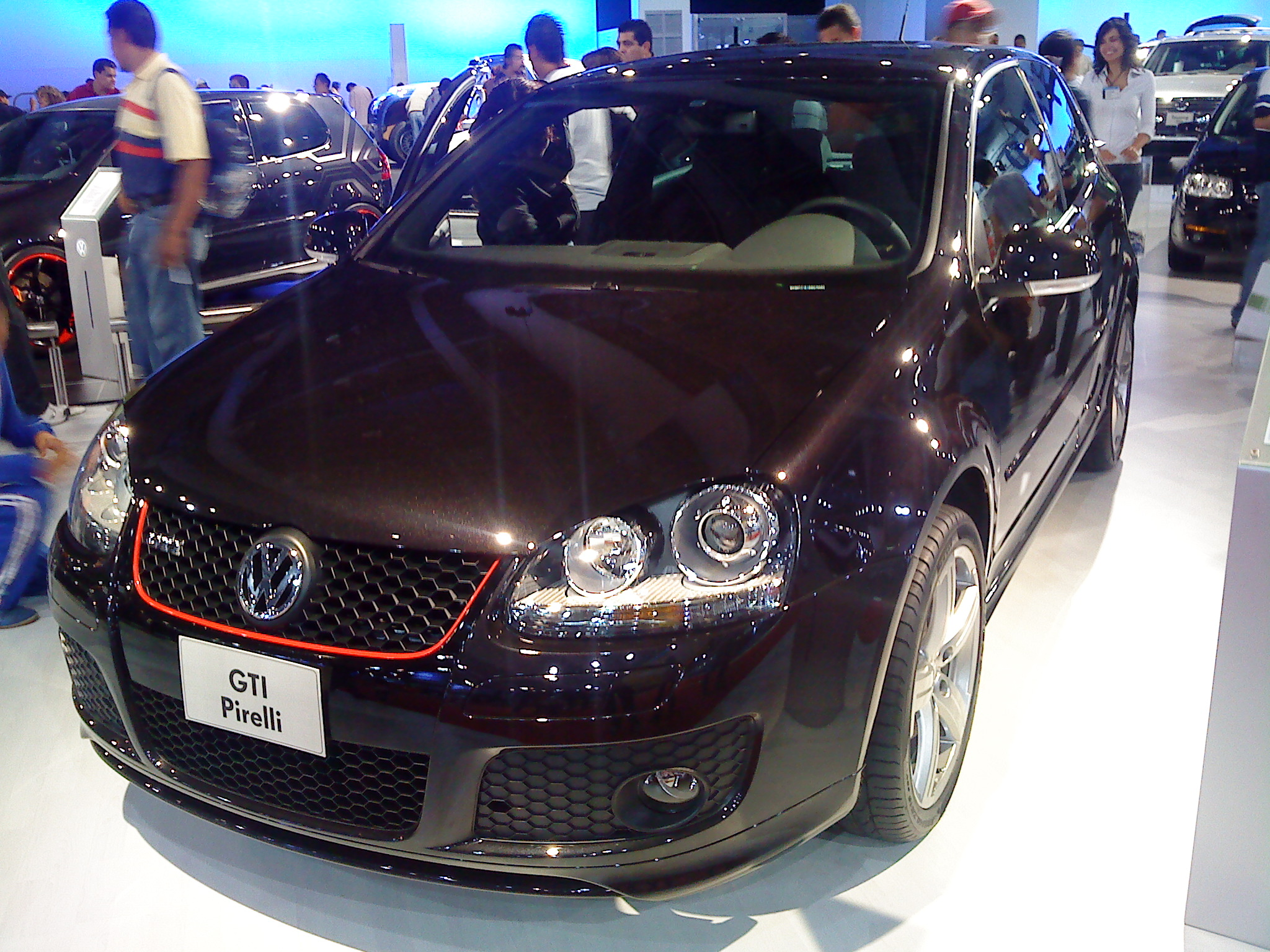 The Volkswagen Golf V GTI Pirelli Special Edition with 230 HP at the 2008 SIAM.